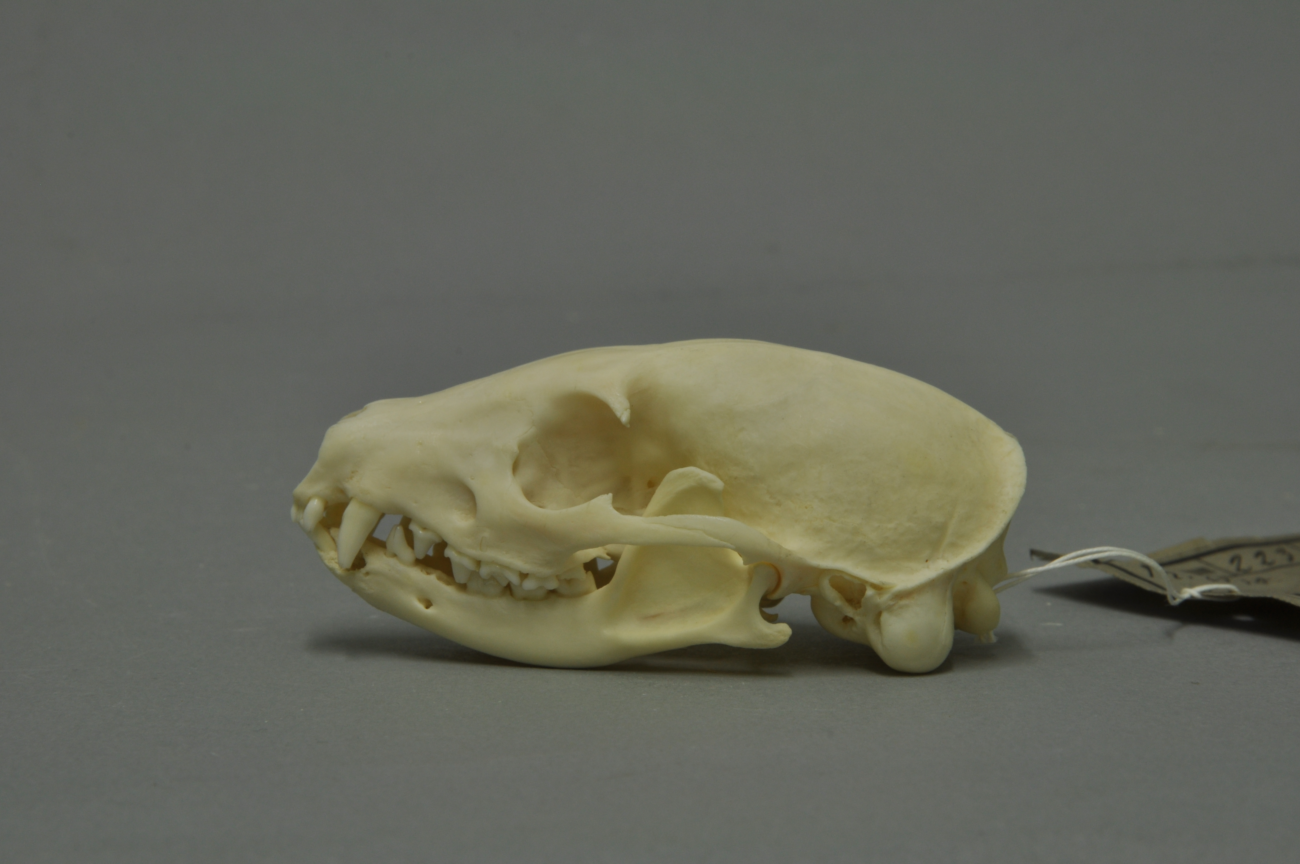 Common kusimanse Crossarchus obscurus, skull, Coll. Museum Wiesbaden